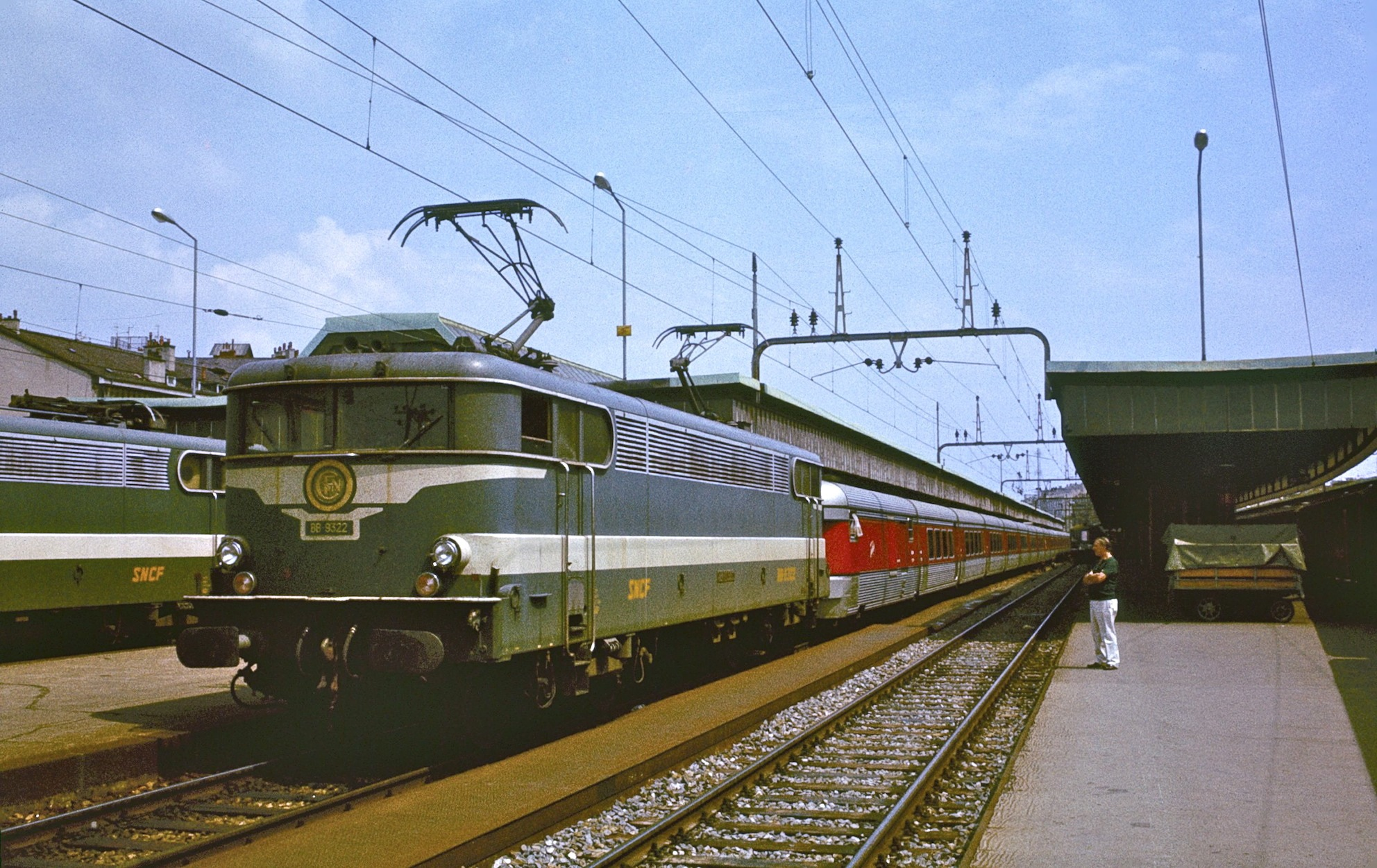 The Trans-Europ Express train Catalan Talgo about to depart Geneva's Gare de Cornavin for Barcelona. The train is headed by SNCF BB 9300-class locomotive number BB 9322, built in 1968.